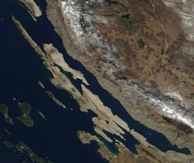 Satellite image of Italy in March 2003.